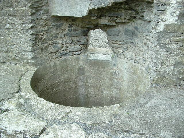 This is a photo taken by me inside the Ross Errilly Friary in 2004. Tank that was used to hold live fish caught from the nearby Black River.